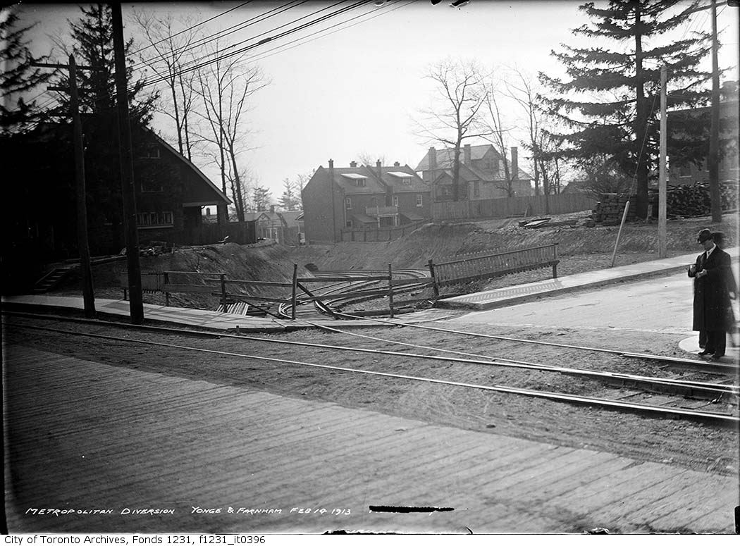 Metropolitan diversion, Yonge Street south at Farnham Avenue, Toronto, February 14, 1913.